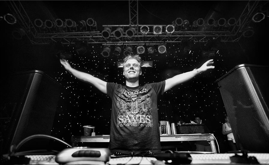 Armin van Buuren performing at Avalon, Boston, 2007.